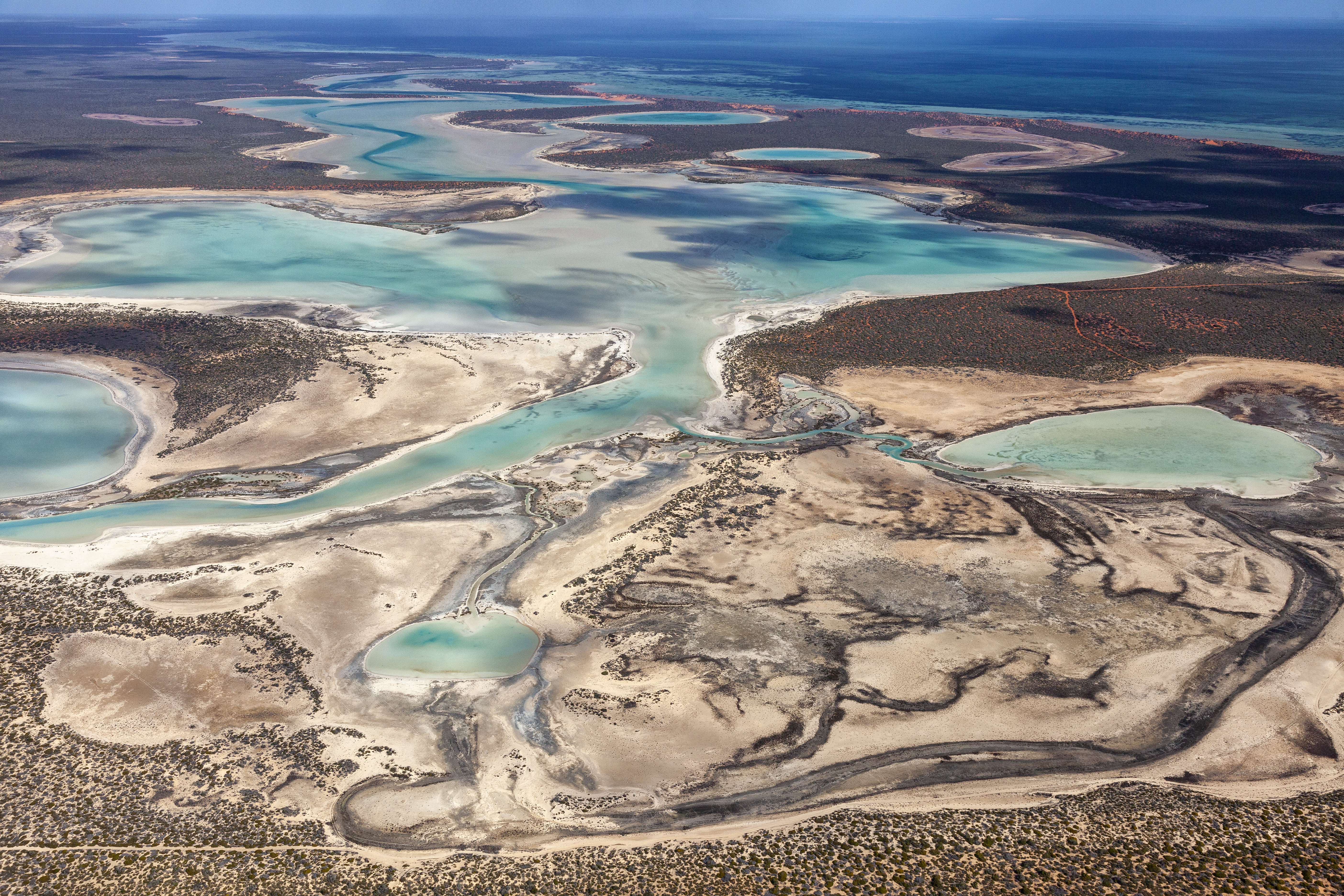 Francois Perron NP is a dry and very hot region where heat and high salinity determine the fate of everything. Small bushes and scrubby plants form intricate patterns and textures that are best viewed from above.